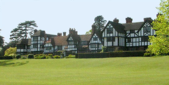 Ascott House from the south